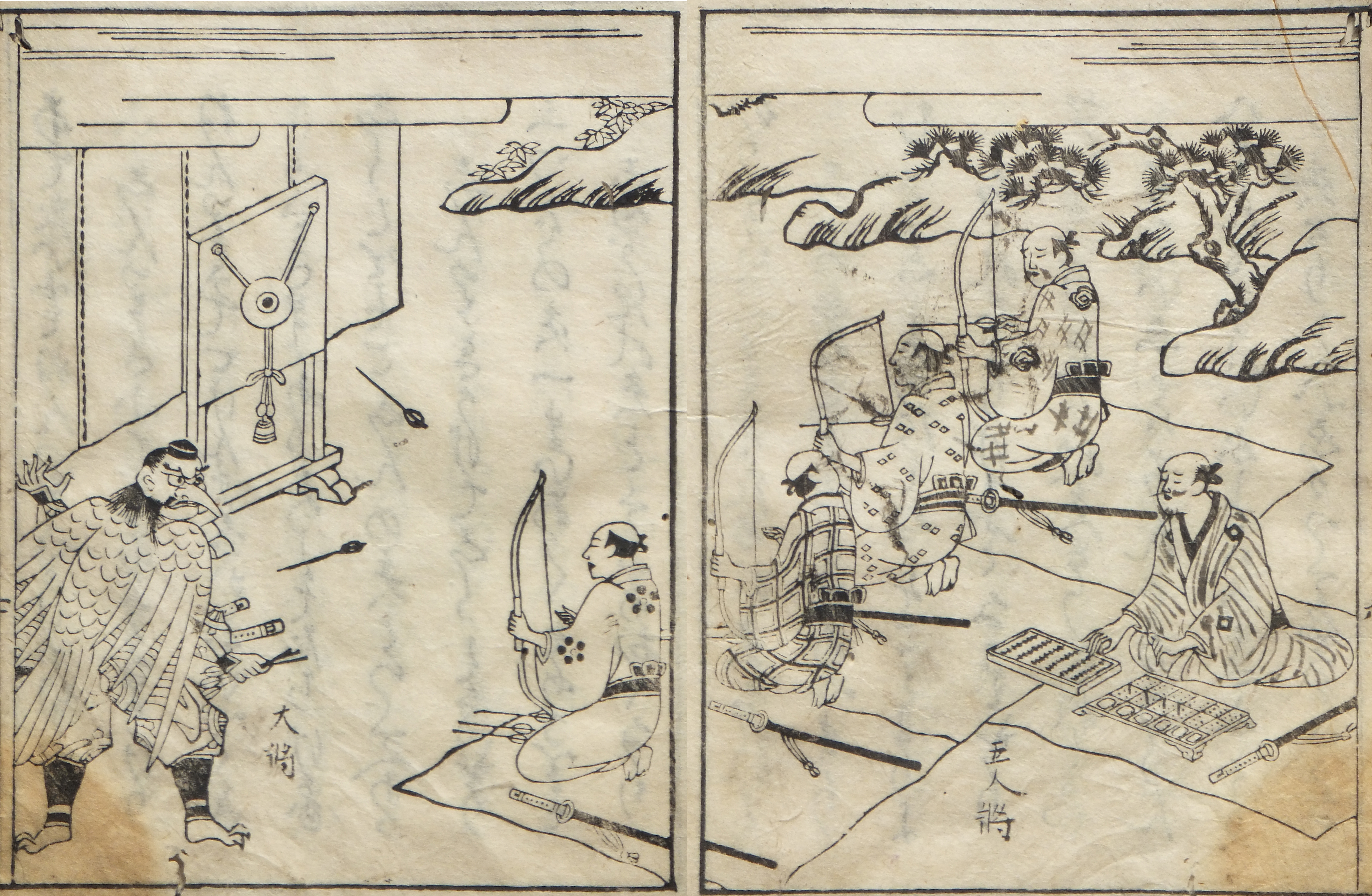 Illustration of a Crow-Tengu (Karasu-Tengu) supervising a competition with Japanese small bows. Printed in Yōkyu hidensho (Secret Tradition of the Small Bow), 1687. Private Collection.